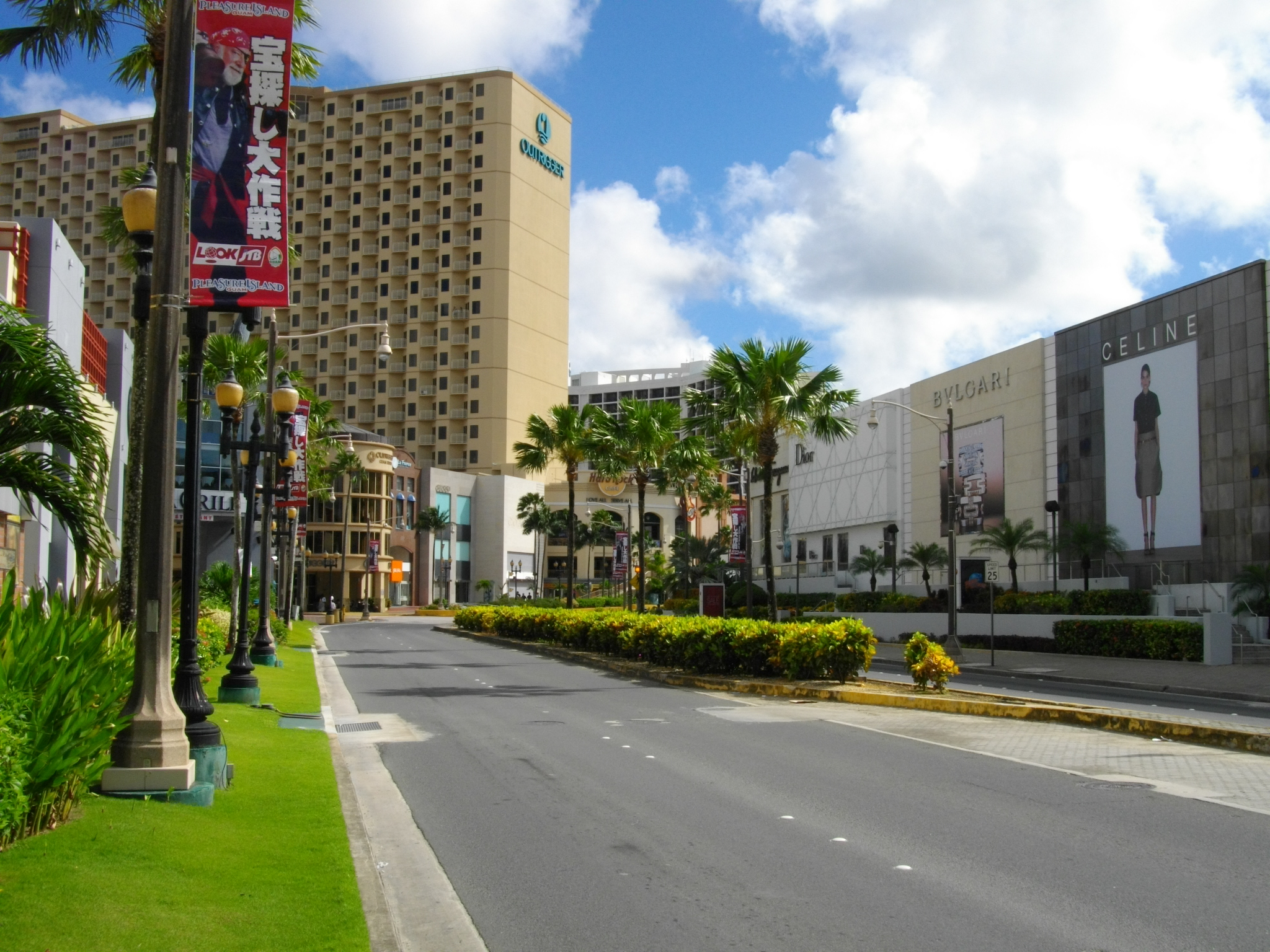 Pleasure Island Guam